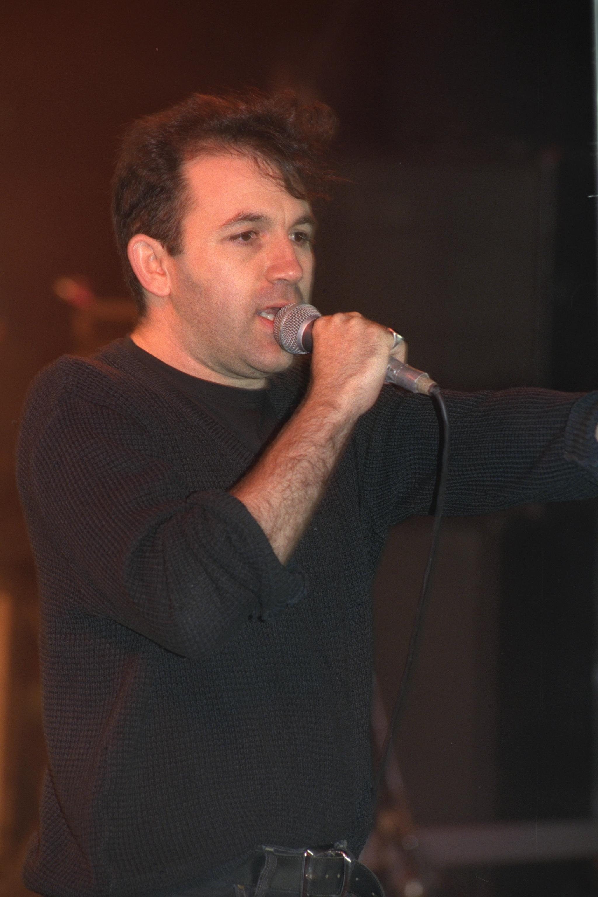 Rock band, ethnix, performing at a rock festival in the red sea.. אתניקס מופיעים בפסטיבל ערד Photo: KOREN ZIV.